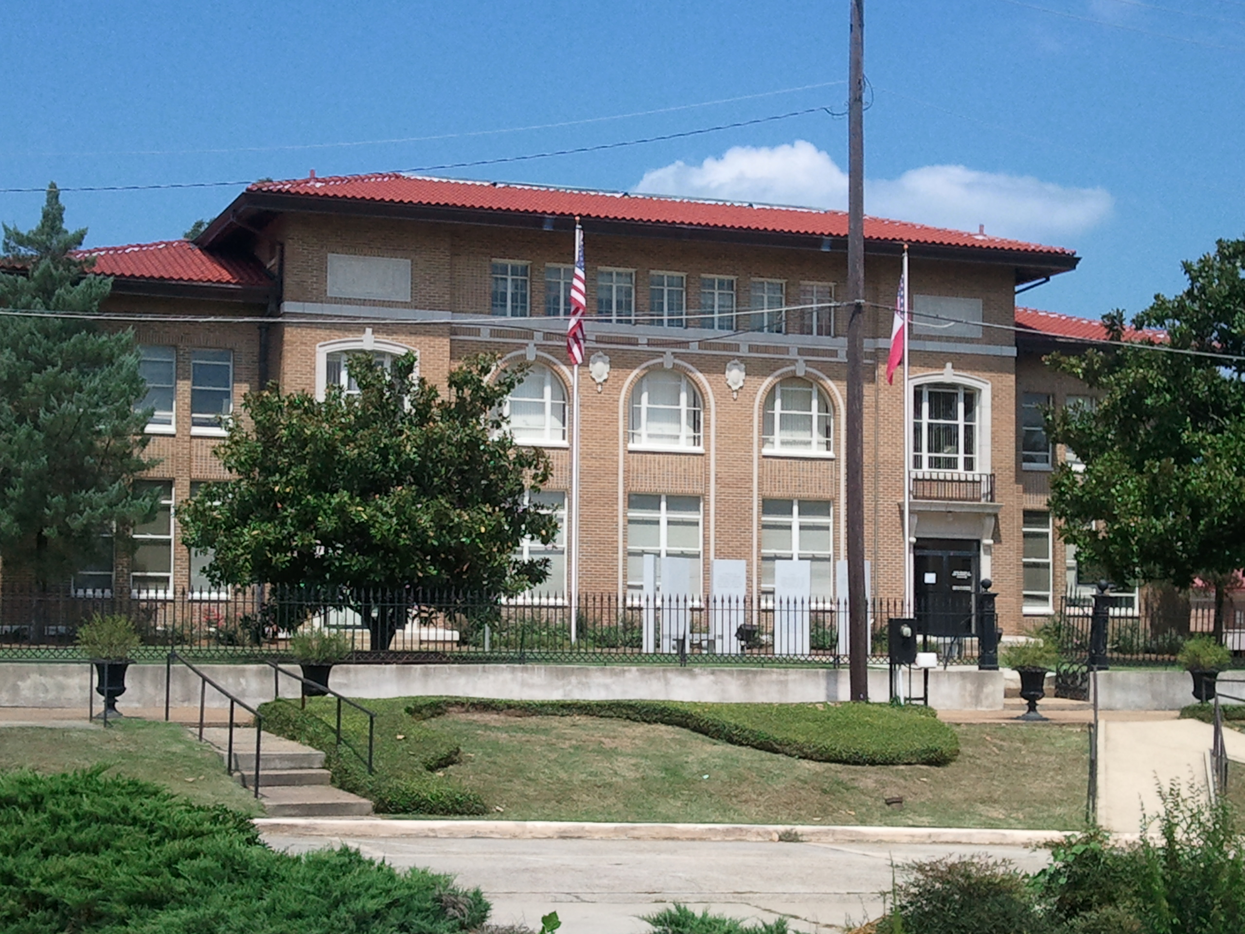 Rankin County Courthouse, 2013